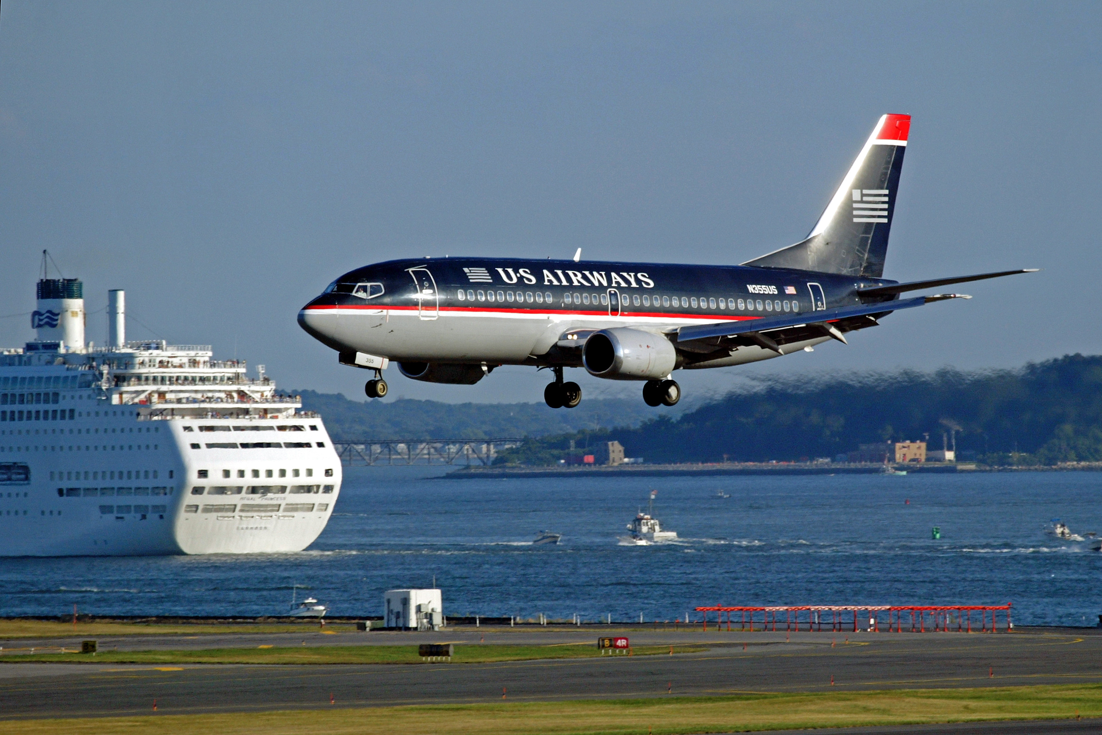 US Airways Boeing 737 N355US, Boston Harbor background.